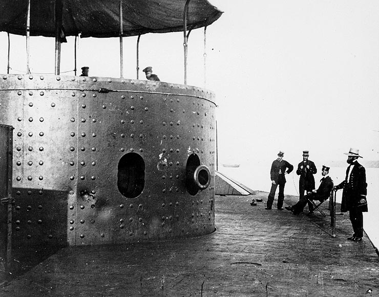 USS Monitor (1862) View on deck looking forward on the starboard side, while the ship was in the James River, Virginia, 9 July 1862. The turret, with the muzzle of one of Monitor's two XI-inch Dahlgren smoothbore guns showing, is at left. Note crewmembers atop the turret, and dents in turret armor from hits by Confederate heavy guns. Dents from the battle with the CSS Virginia are visible. Officers at right are (left to right): Third Assistant Engineer Robinson W. Hands, Acting Master Louis N. Stodder, Second Assistant Engineer Albert B. Campbell (seated) and Acting Volunteer Lieutenant William Flye (with binoculars). Removed caption read: Photo # NH 61923 Officers and turret on board USS Monitor, 1862